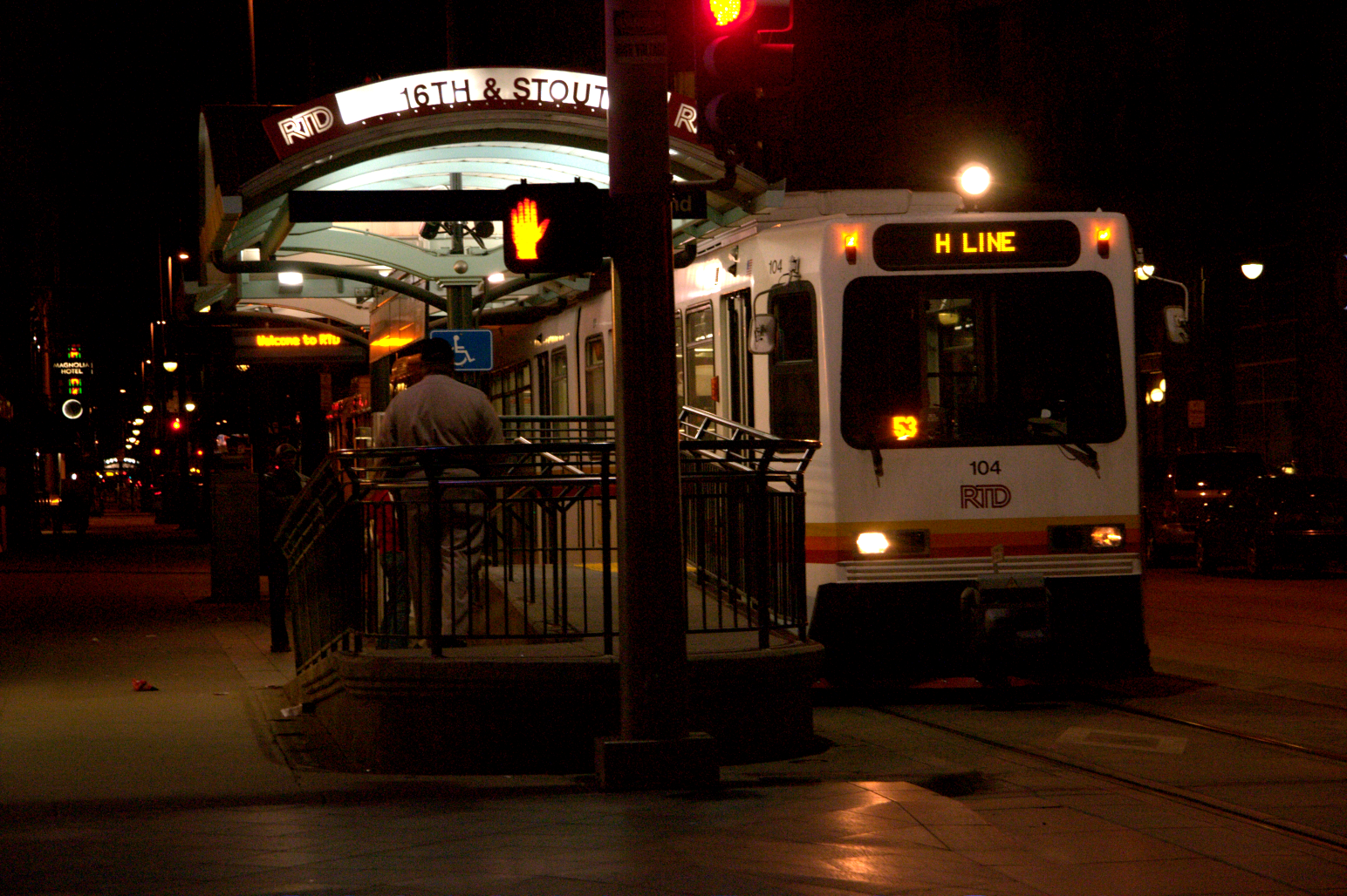 An RTD light rail vehicle at 16th & Stout.